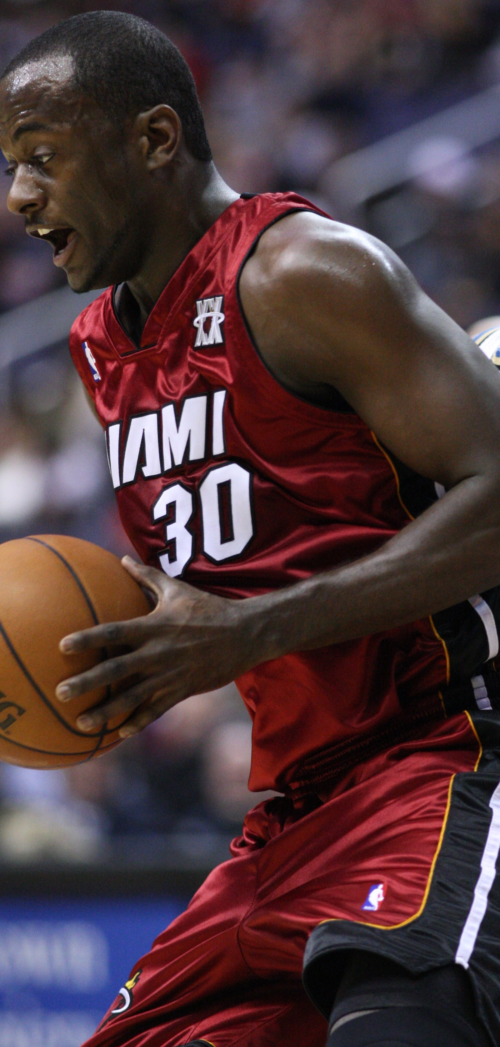 Earl Barron of Miami Heat with the ball. Brendan Haywood of Washington Wizards defends.